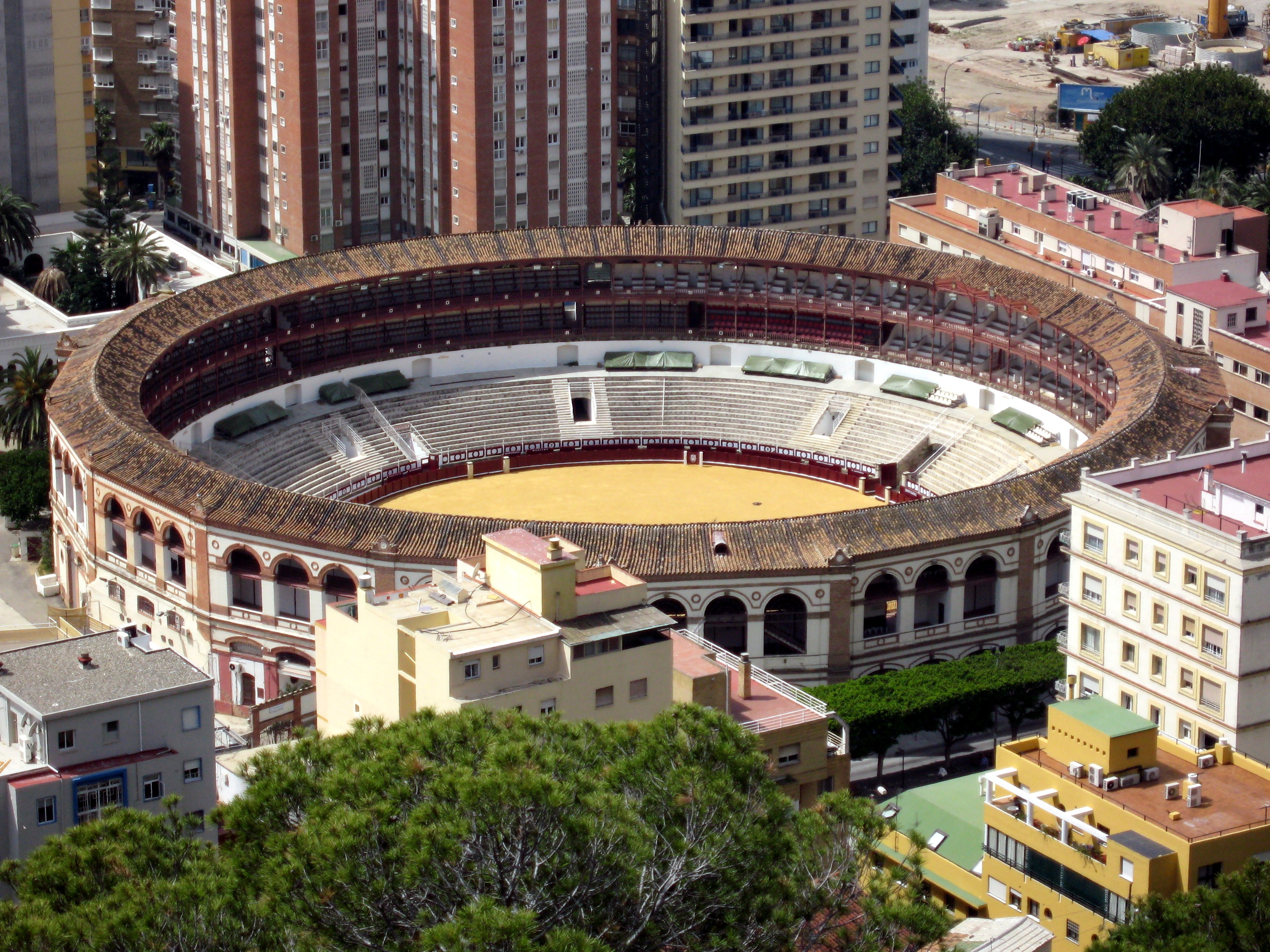 Plaza de Toros (bullring) in Malaga, Spain.